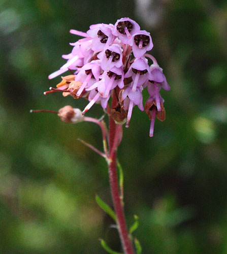 Erica spiculifolia